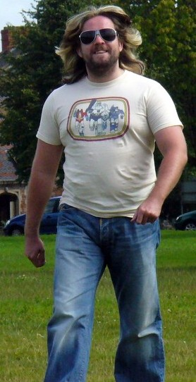 Justin Lee Collins seen on his birthday at the Durdham Down park in Bristol 2007. Photographed by Alan James (Tomun 17:37, 30 July 2007 (UTC))